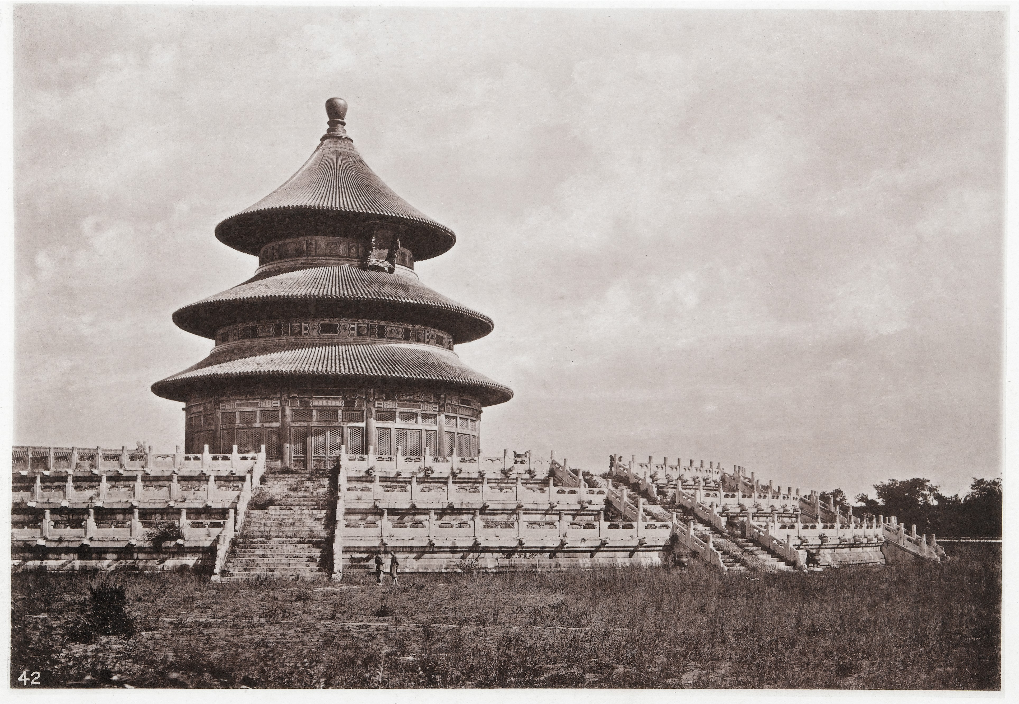 The Temple of Heaven, Peking, Chinese quarter General Collections Keywords: John Thomson; Architecture as Topic; Religion; China; Architecture; Peking (Beijing); Temple; Manchu (Qing) Dynasty